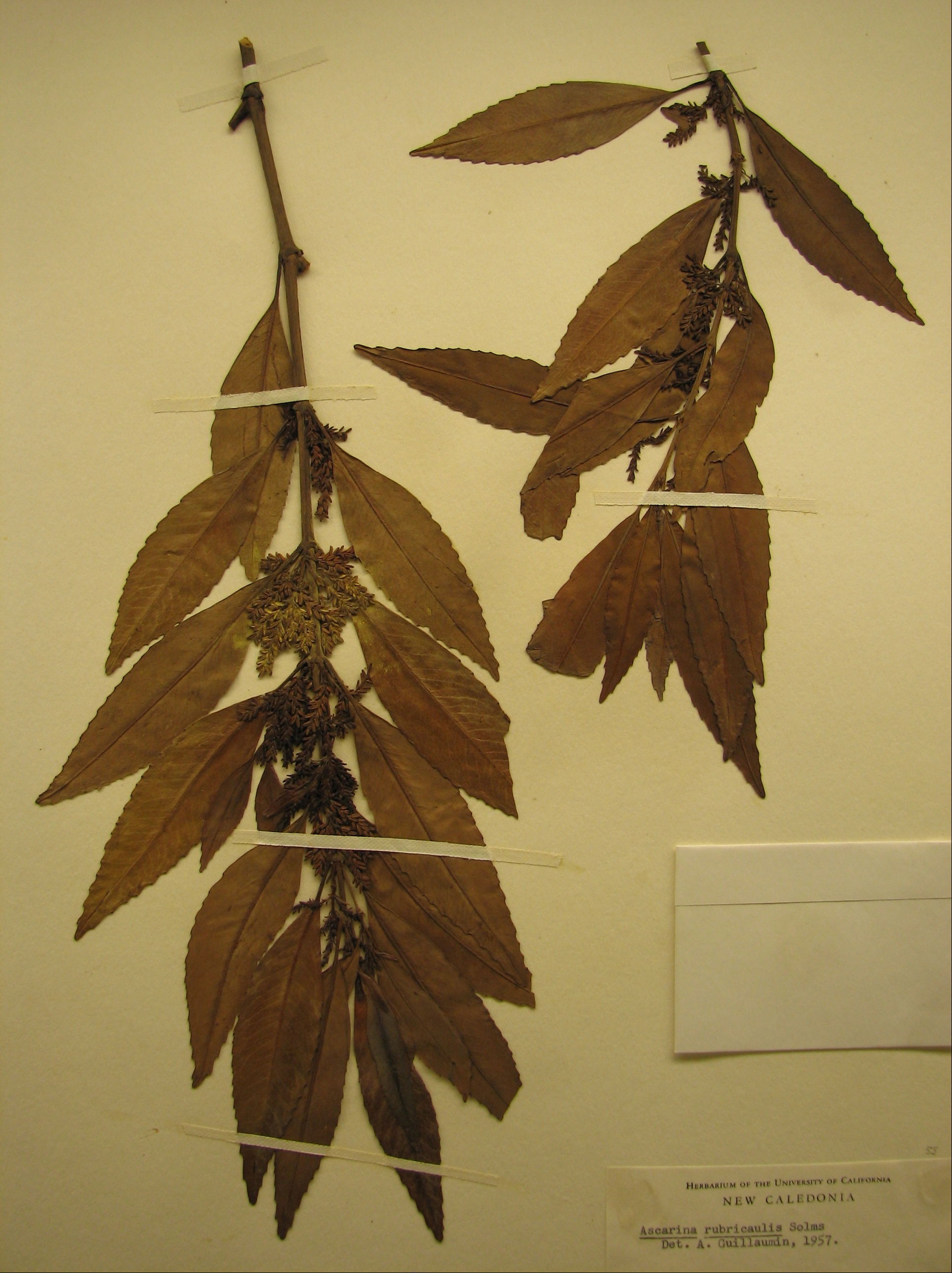 Ascarina rubricaulis New Caledonia, shrub collected 24 May 1956 Adriance S. Foster 103